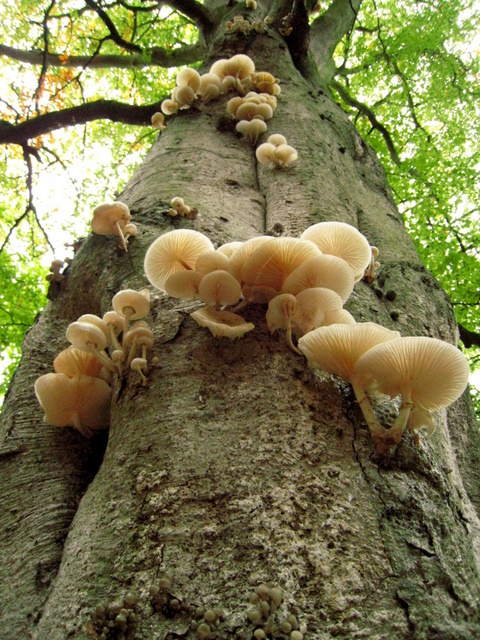 Fungal attack! Infested beech tree at Fyvie Castle